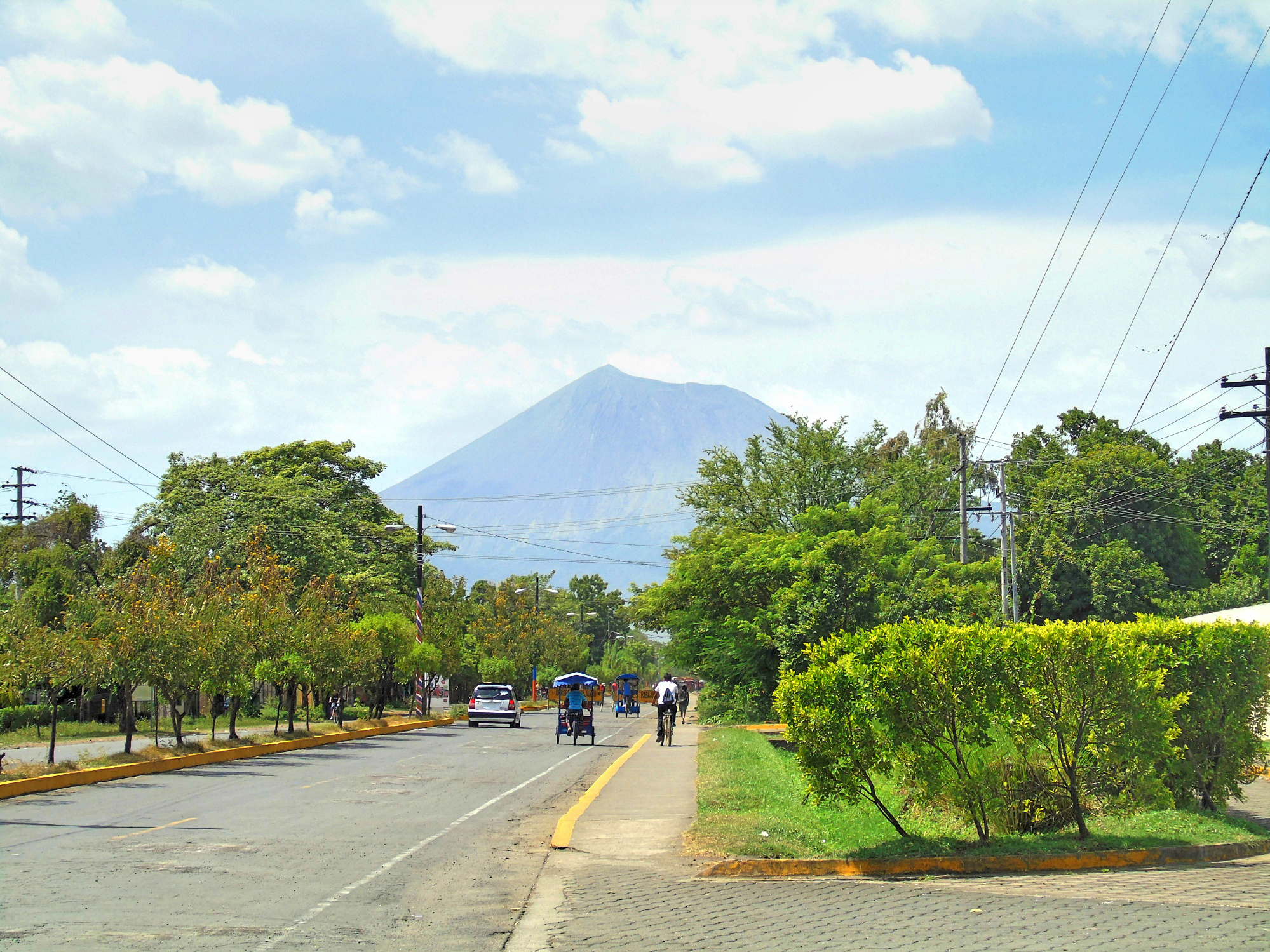 San Cristobal Volcano seen from Chichigalpa highway a very active volcano, who that day was in normal activi.